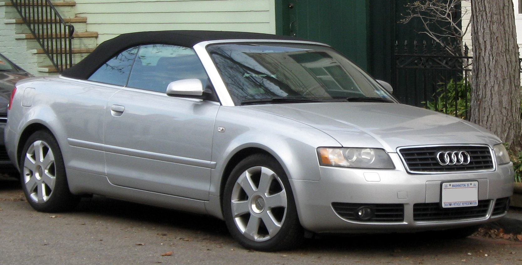 Audi A4 photographed in Washington, D.C., USA.